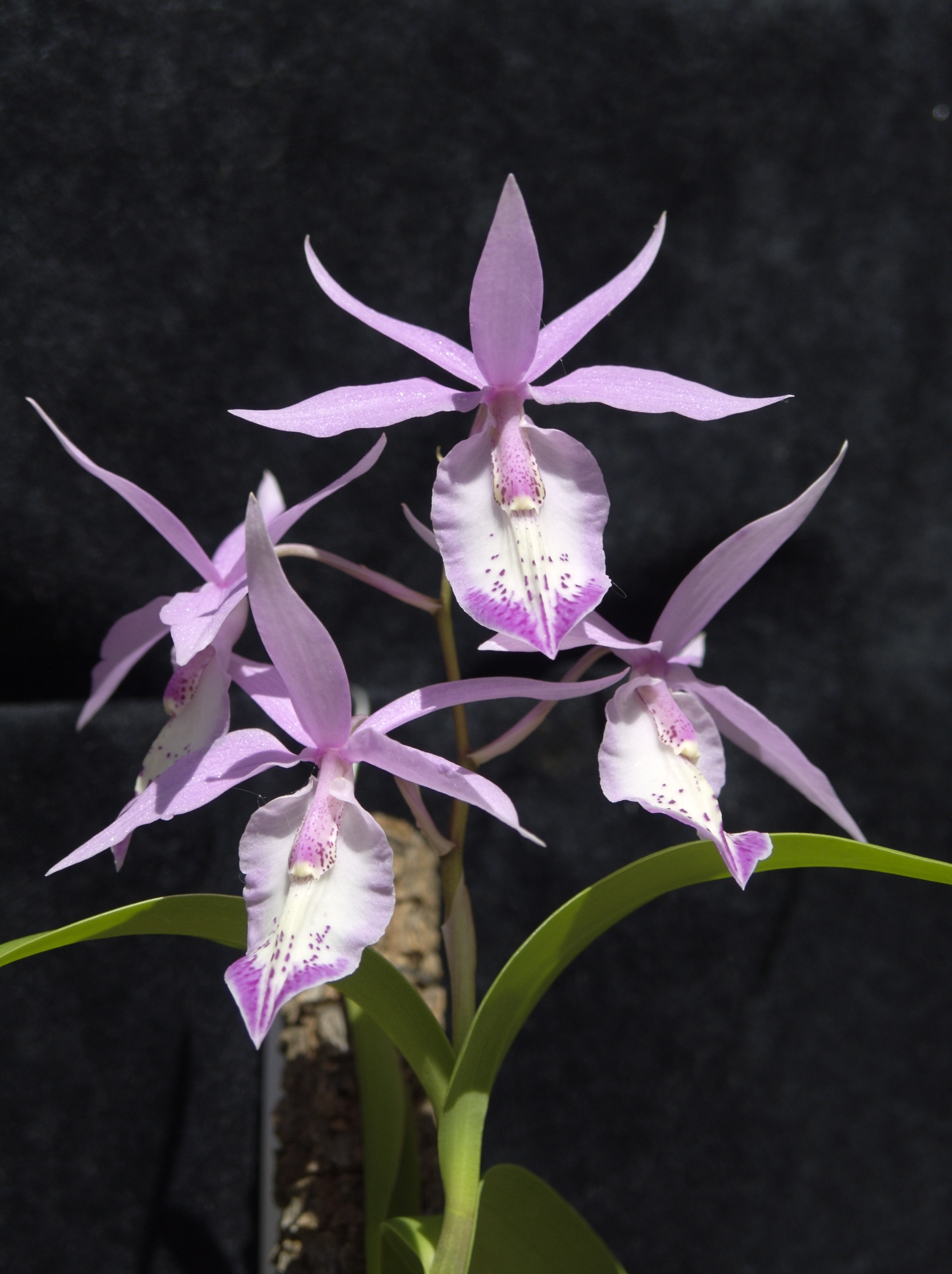 Orchid: Barkeria spectabilis, flower and plant